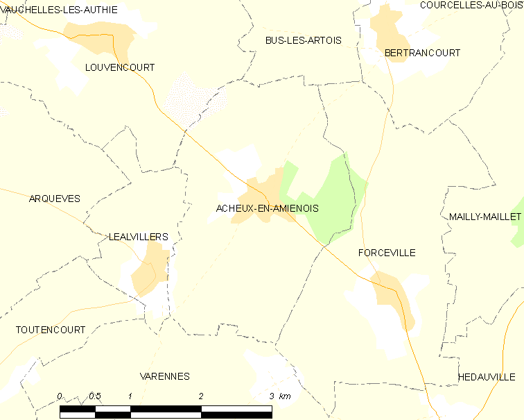 Map of French municipality Acheux-en-Amiénois